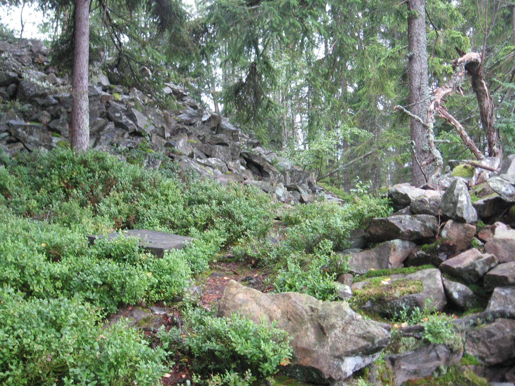 Giant Castle (Obří hrad), ruins of Celtic fortified settlement on the hill Valy above the hamlet of Popelná in the Bohemian Forest (Šumava).